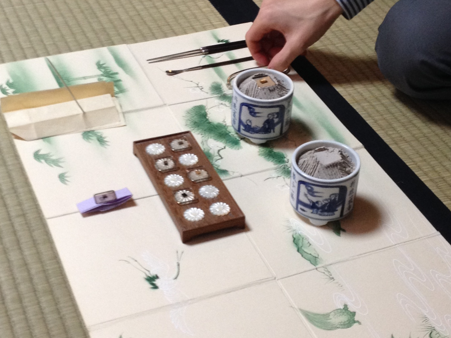 A game of Ayameko (菖蒲香) being prepared, part of the Japanese incense ceremony.